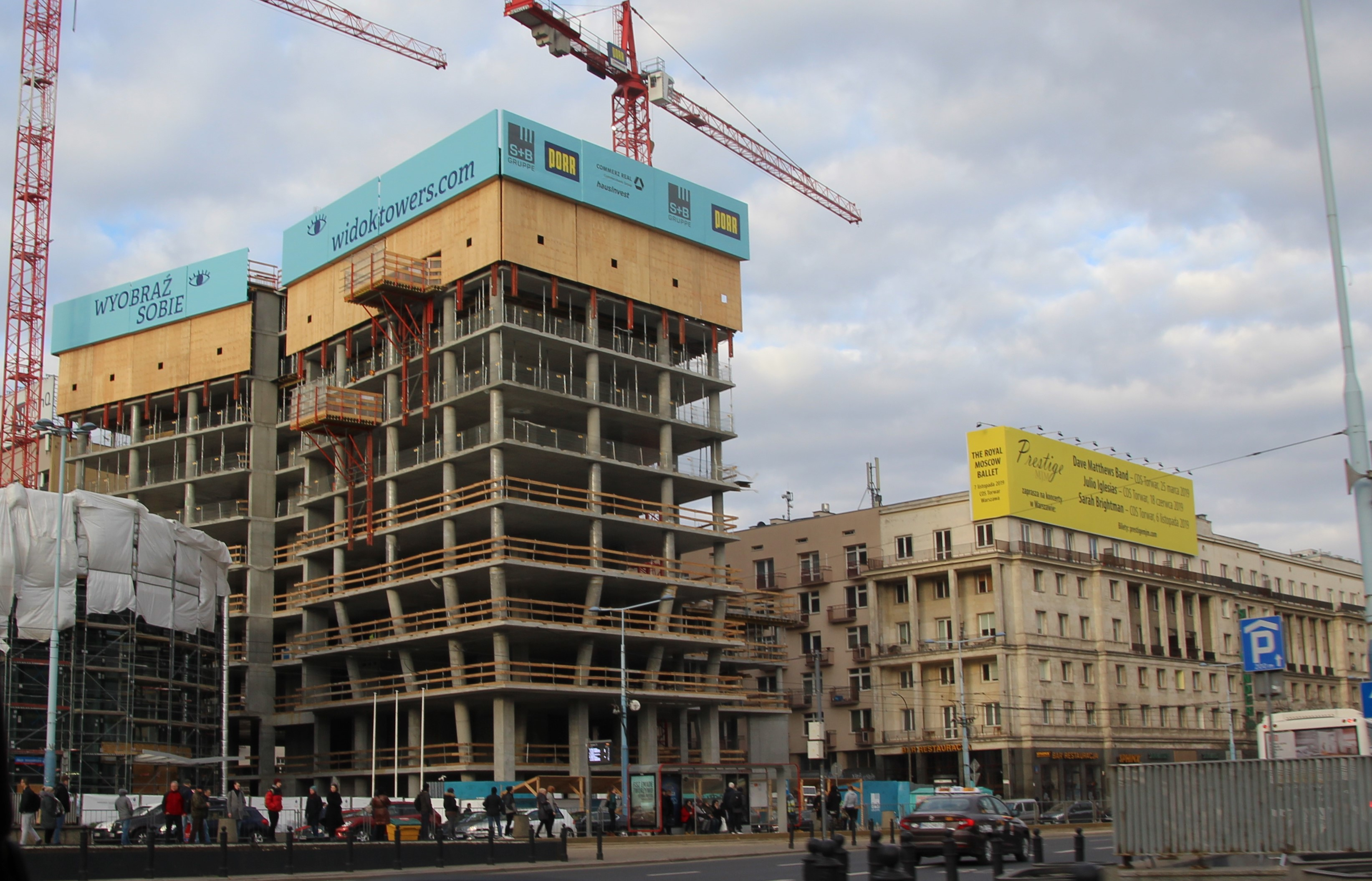 Widok Towers under construction